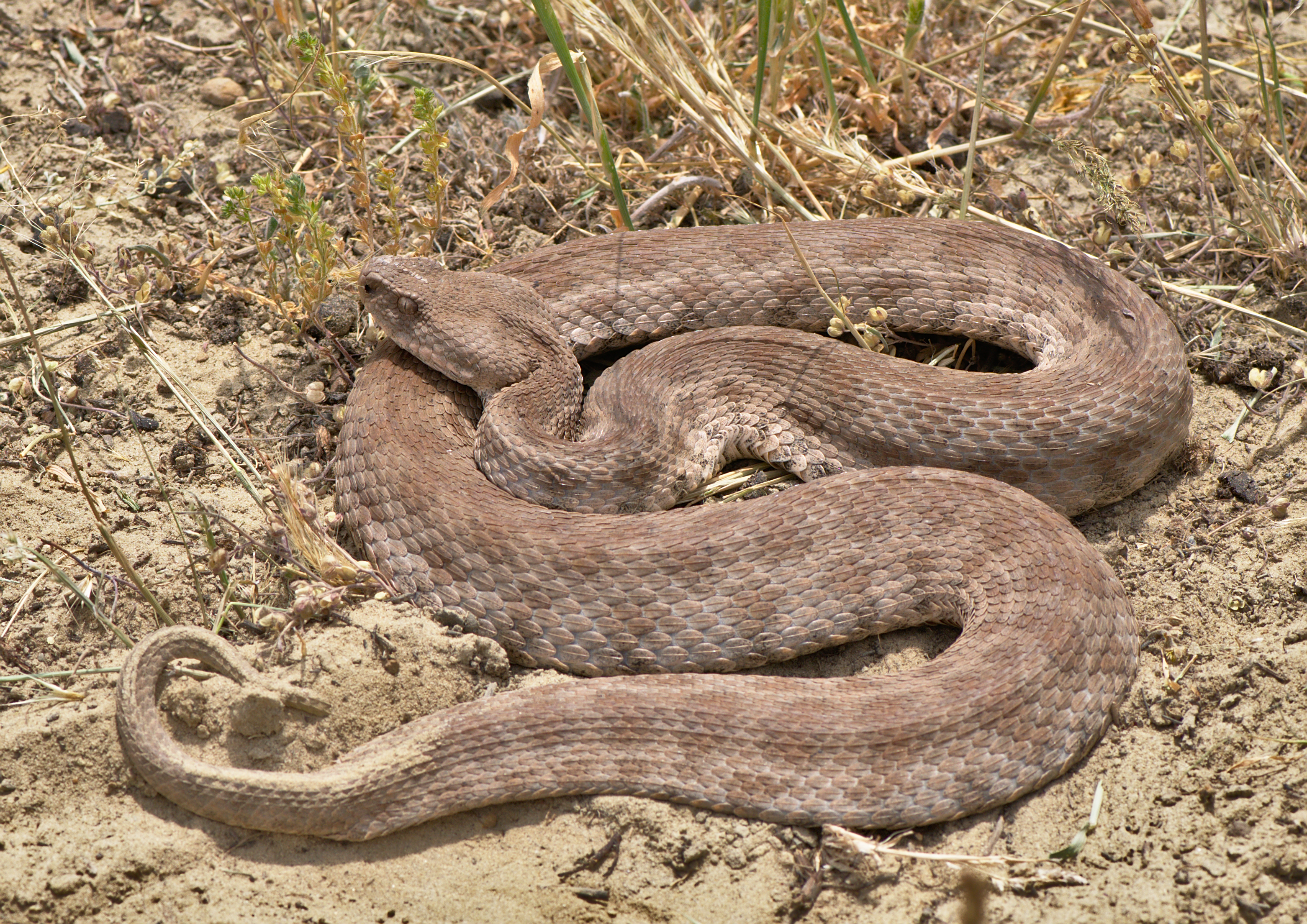 Macrovipera lebetina